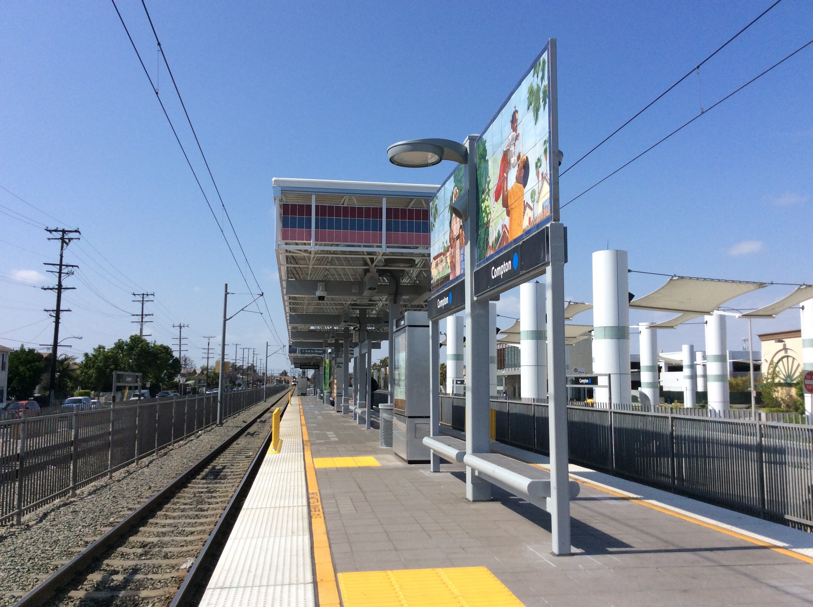 The platform view of Compton Station.